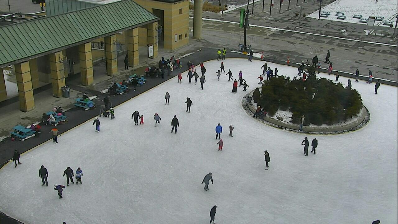 Mississauga, Ontario, CANADA